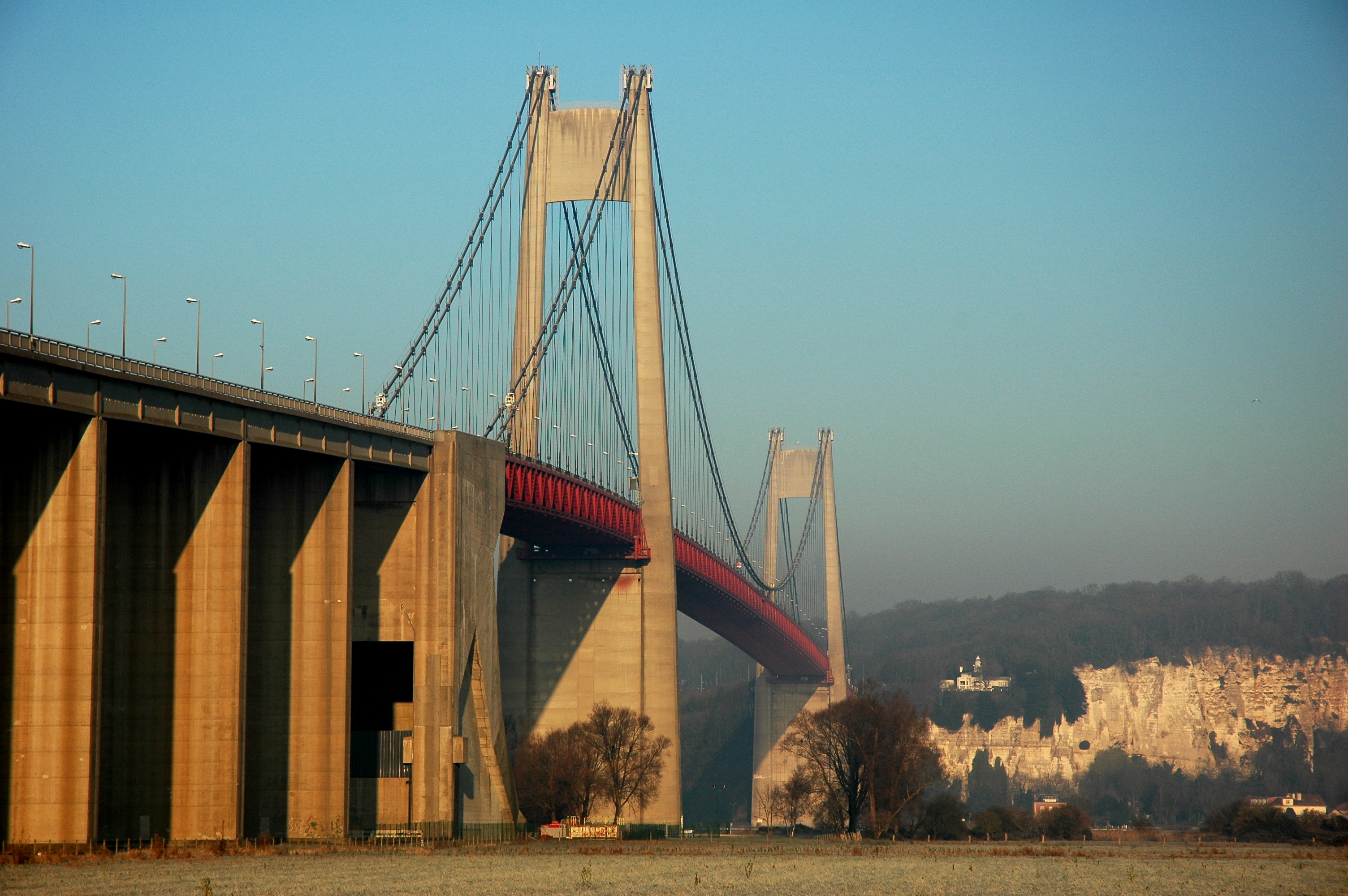 Bridge of Tancarville France